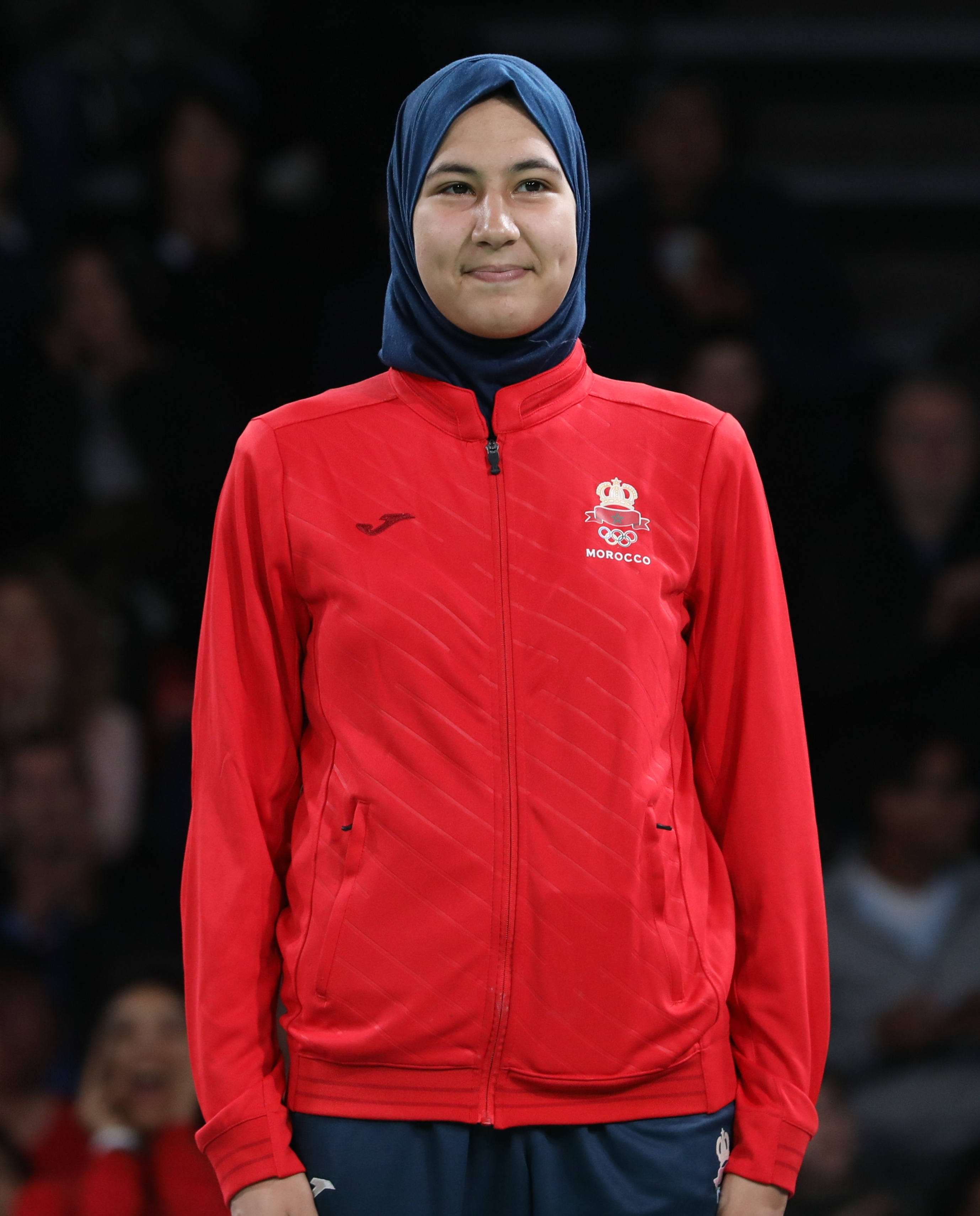 Taekwondo +63 kg female: Victory ceremony